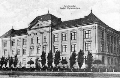 The new building of Evangelic High School in Békéscsaba in 1899